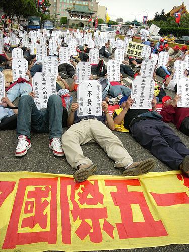 One scene in the May 1 demonstration in Taipei in 2007.